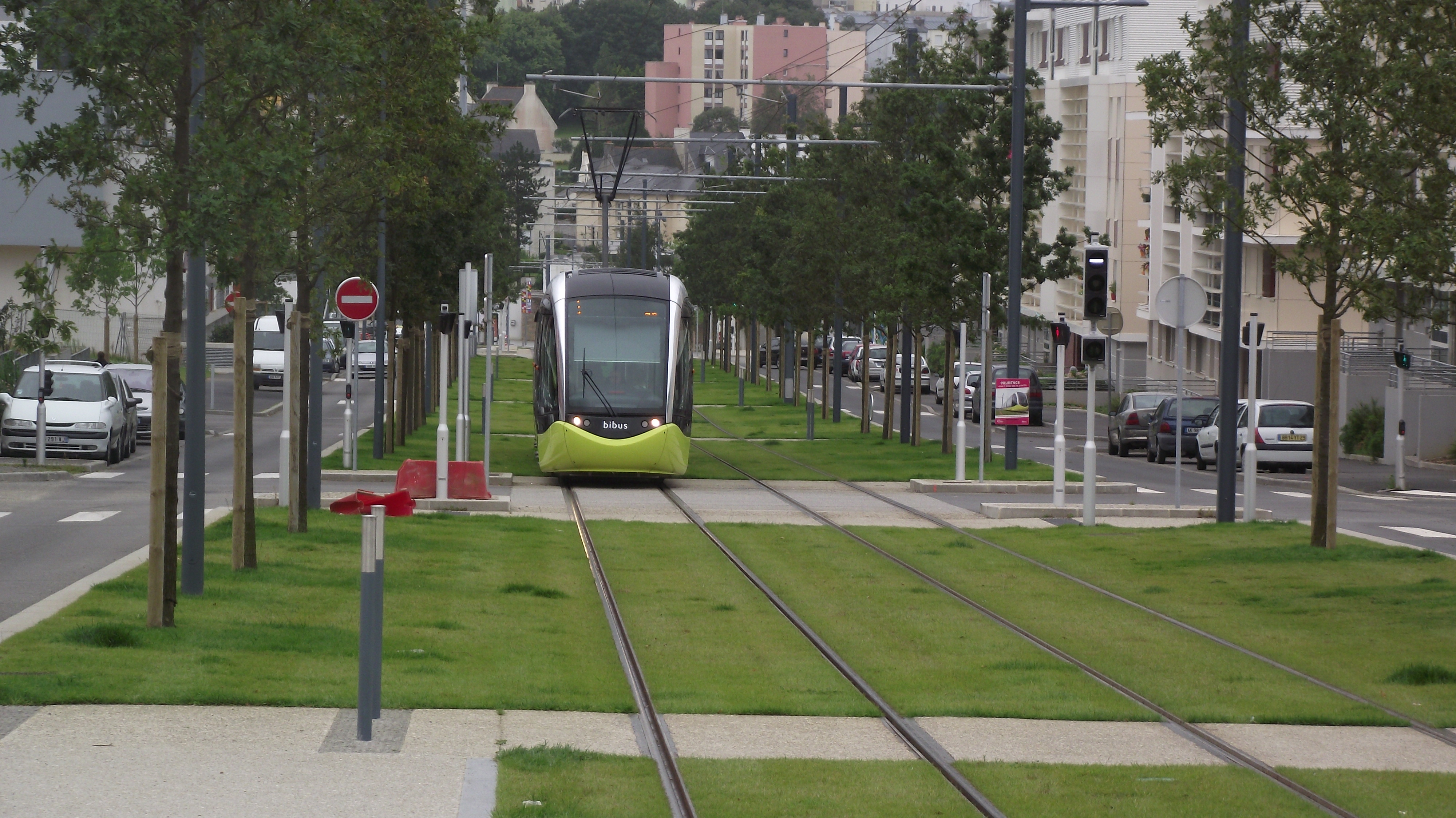 Tram in Brest the stop Pontanézen